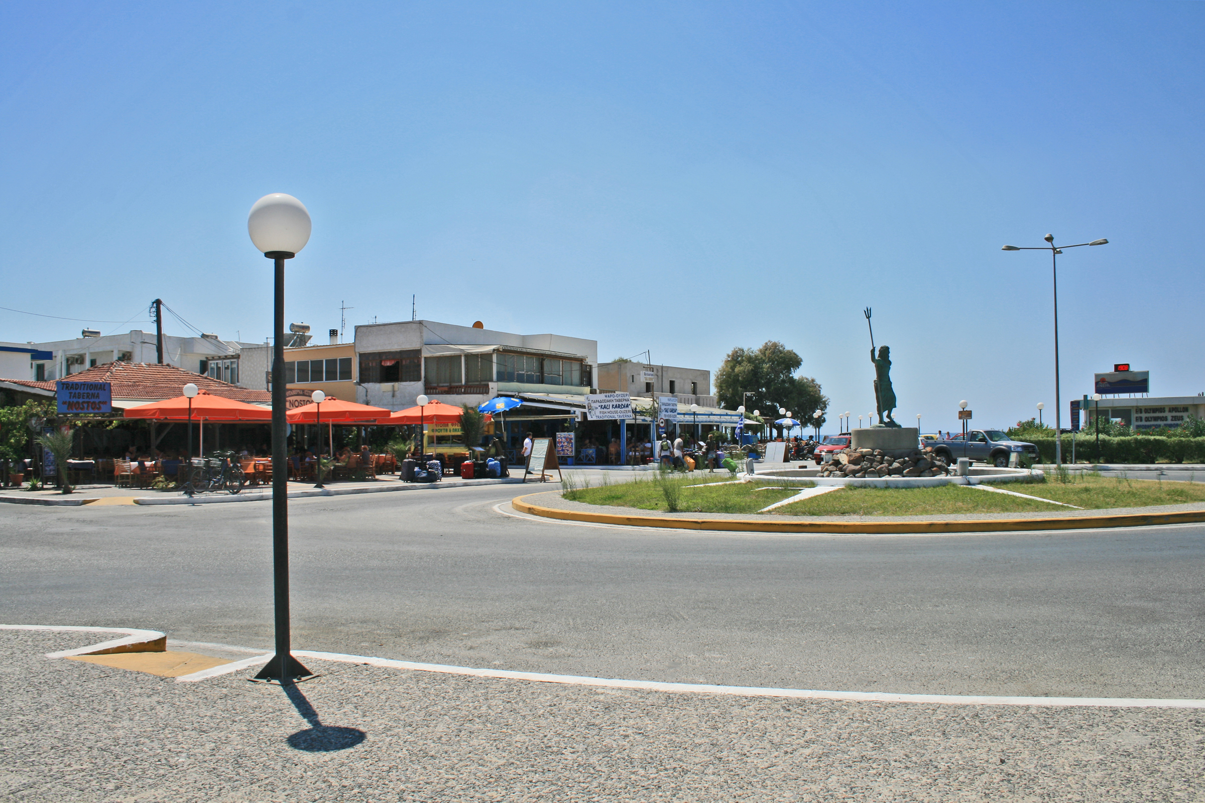 Place near harbour of town Mastichari on Kos island (Greece)